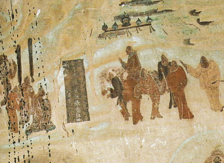 Zhang Qian leaving emperor Han Wudi around 130 BCE, for his expedition to Central Asia. Mural in Cave 323, Mogao Caves, high Tang Dynasty, circa 8th century CE. Rong Xinjiang (2013). Eighteen Lectures on Dunhuang, translated by Imre Galambos, BRILL, ISBN 978-90-04-25233-2, p. 52.